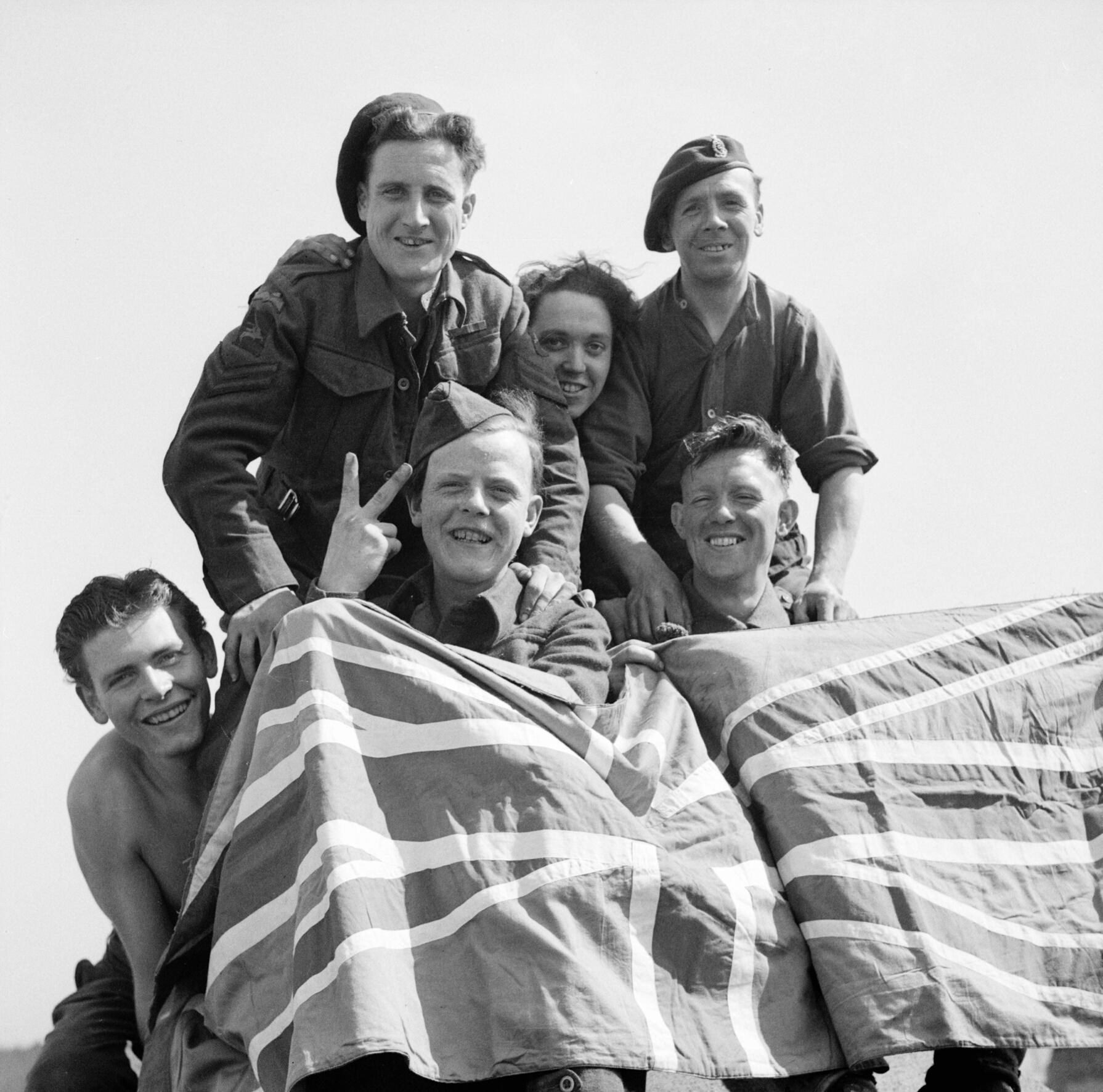 British Prisoners of War celebrate their liberation from Stalag 11B at Fallingbostel, 16 April 1945. Some of the British Prisoners of War liberated from Stalag IIB. From left to right: Private Smyth of Downham, captured at Cherbourg in 1944; Private Ryan of Bradford, captured at Hertogenbosch, 1944; Corporal Beardmore of Cheadle, captured at Arnhem, 1944; Private Still of Manchester, captured at Arnhem, 1944 and Private Greare of Glasgow, captured at St. Valery, 1940.